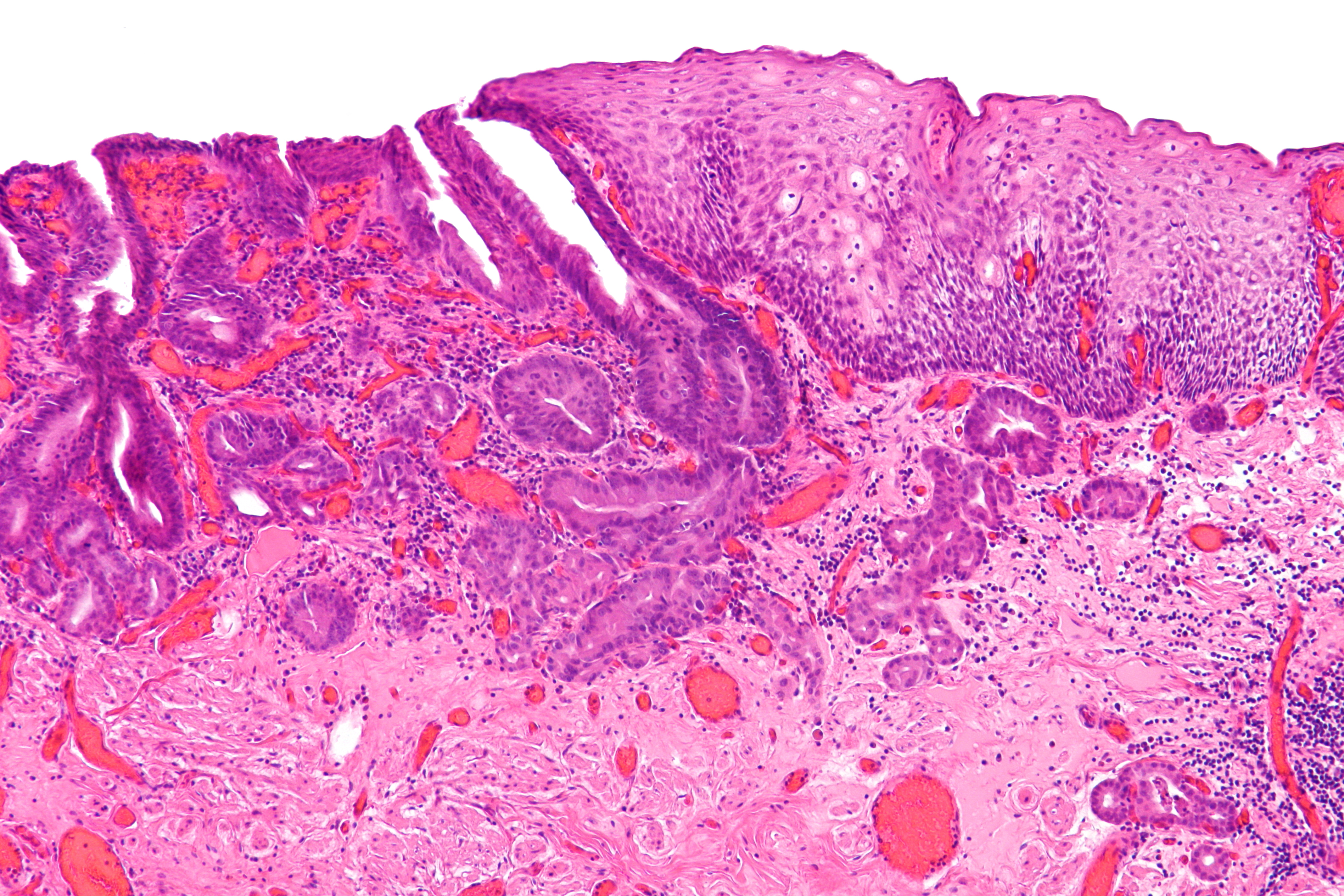 Intermediate magnification micrograph of an intramucosal esophageal adenocarcinoma, a type of esophageal cancer. H&E stain. Endoscopic mucosal resection specimen. The images show normal squamous epithelium (right of image) and an adenocarcinoma (left of image). The adenocarcinoma has a typical morphology; it is composed of cohesive clusters of cells arranged in glands and has the cytologic features of a malignancy (variable nuclear size, nuclear staining, and nuclear shape). Mitoses, in the neoplastic cells, are abundant. Related images Very low mag. Low mag. Intermed. low mag. High mag. Very high mag.